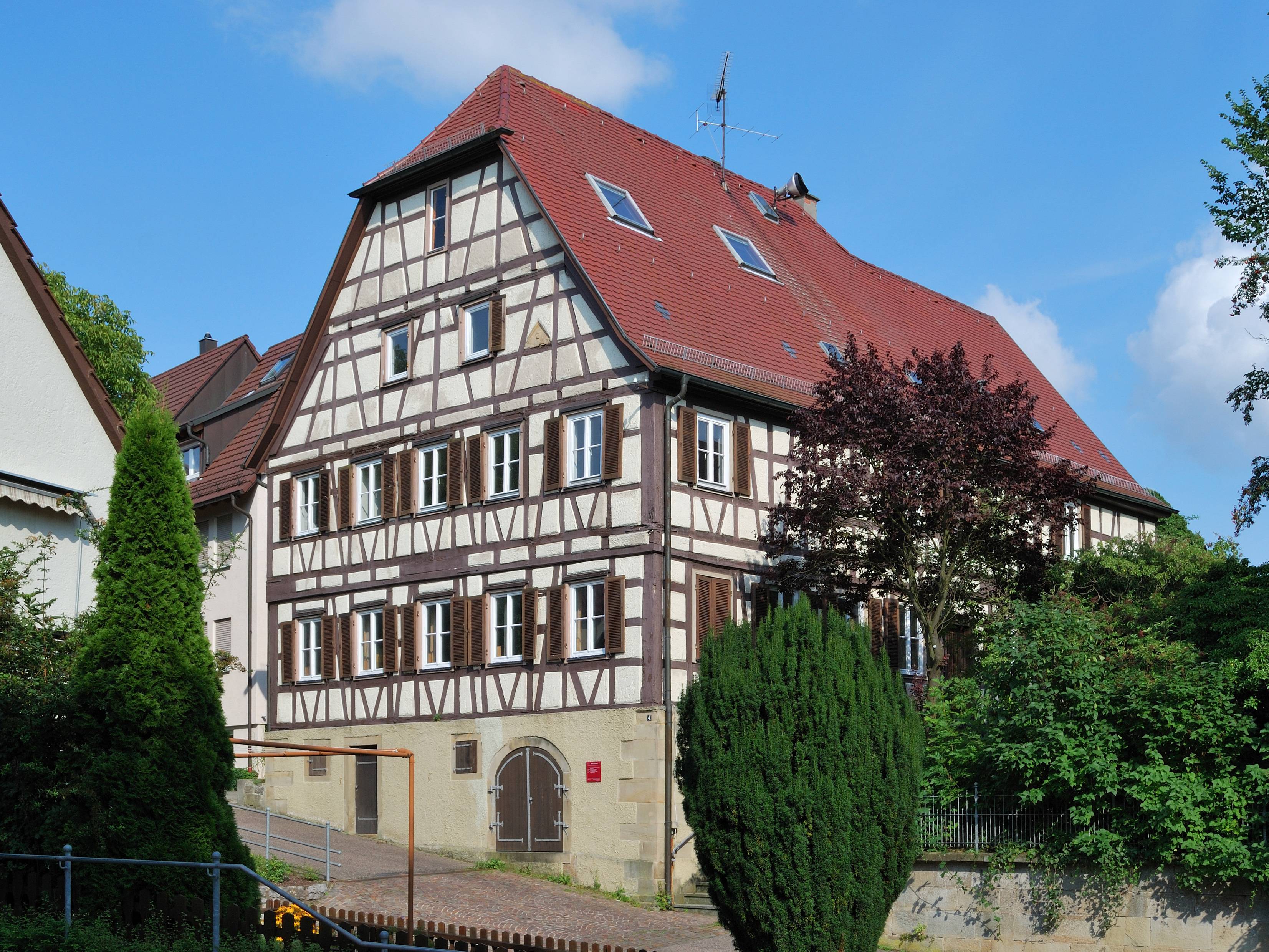 Old schoolhouse in Schwieberdingen in the federal state Baden-Württemberg in Germany. The original building from 1580 with one schoolroom and an apartment for the teacher was demolished and rebuilt in the years 1806/1807. The building serves since 1970 as a community apartment house.